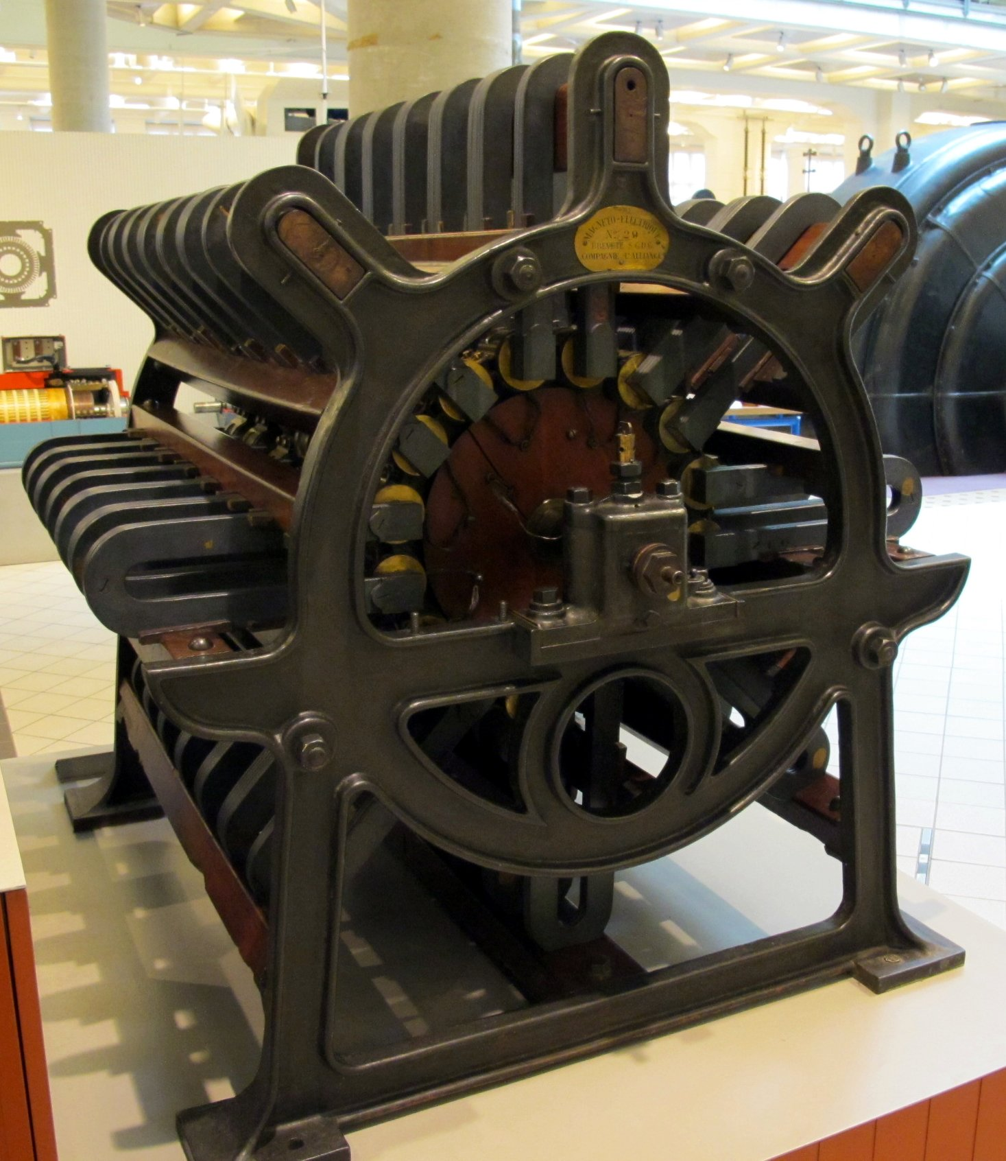 2 kW AC magneto generator with the rotor turning in the coils of an array of horseshoe magnet. This generator was developed by the k.u.k. Army used for the operation of arc lamps. Manufacturer: Compagnie L'Alliance Year: 1870